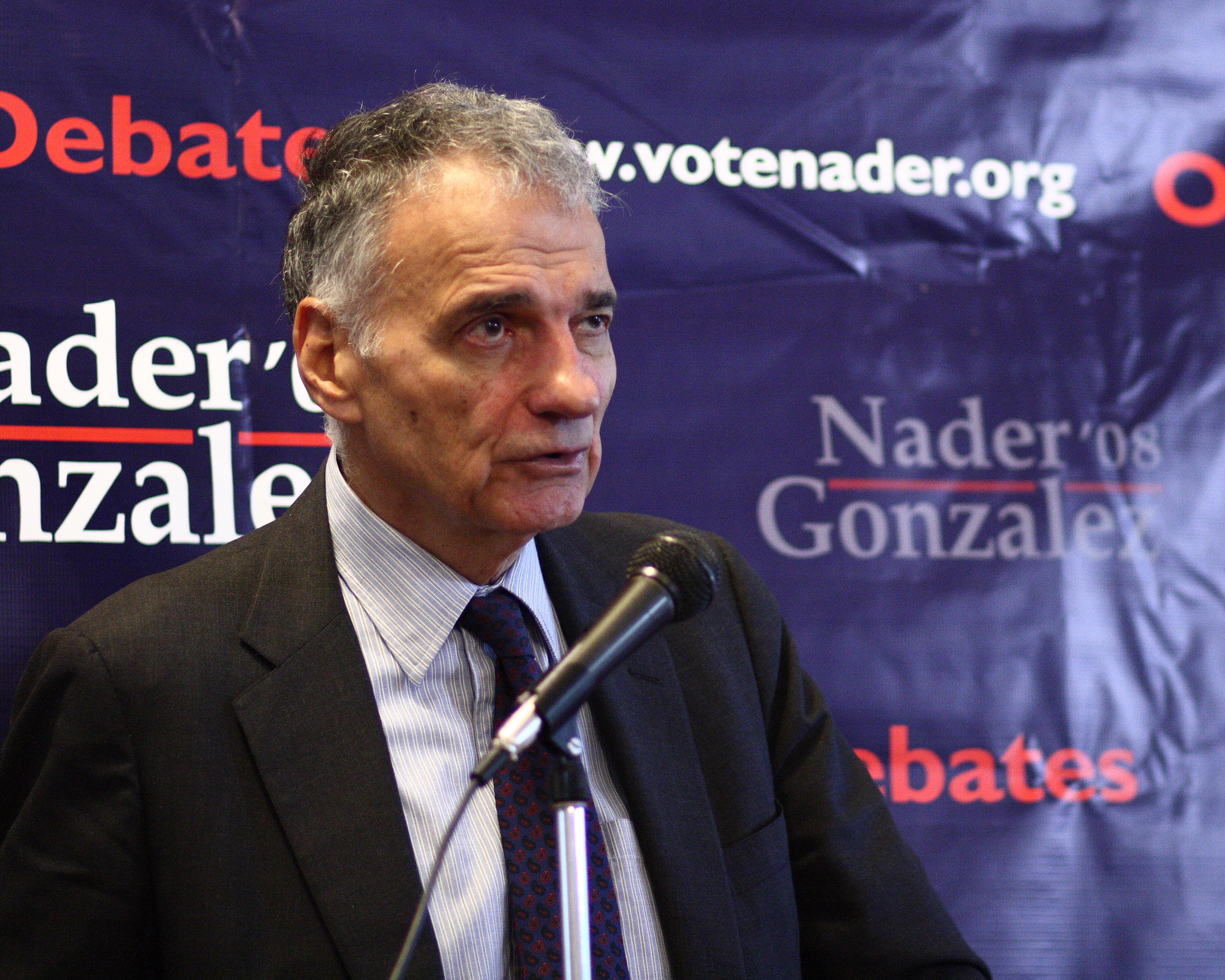 Independent presidential candidate Ralph Nader speaking at a campaign event in Waterbury, CT at 195 Grand St.